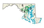 Image adapted from US fed gov't source Category:Congressional districts of Maryland